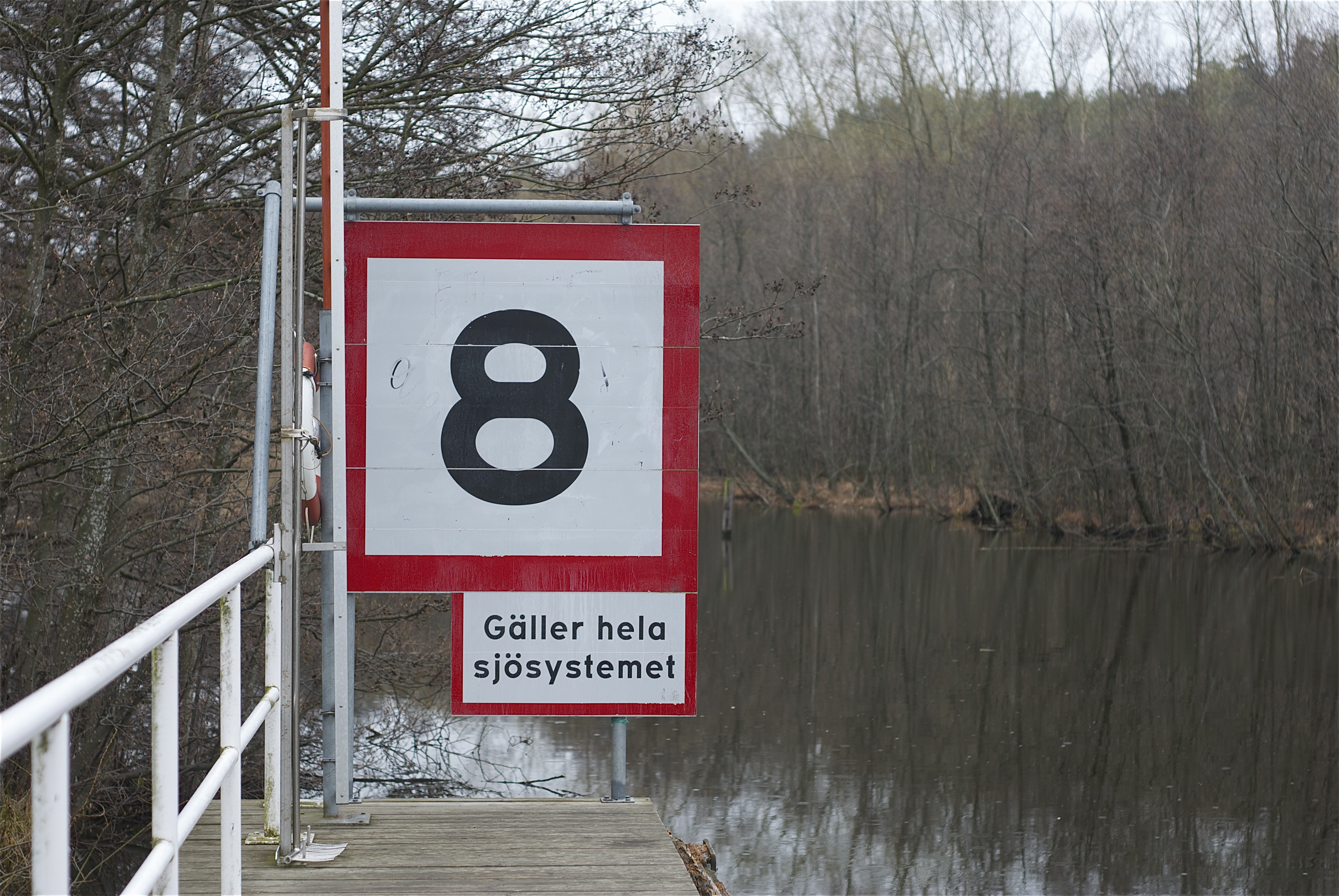 Speed limit sign at Sicklasjön (Lake Sickla), the border between Nacka and Stockholm municipality.